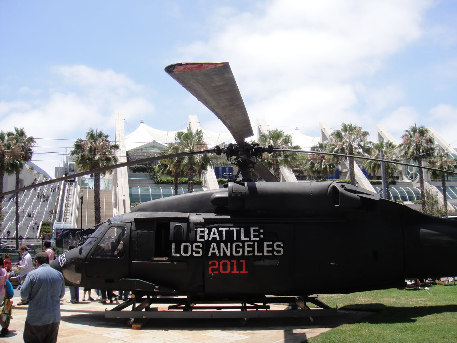 Comic-Con 2010 - Battle: Los Angeles helicoper